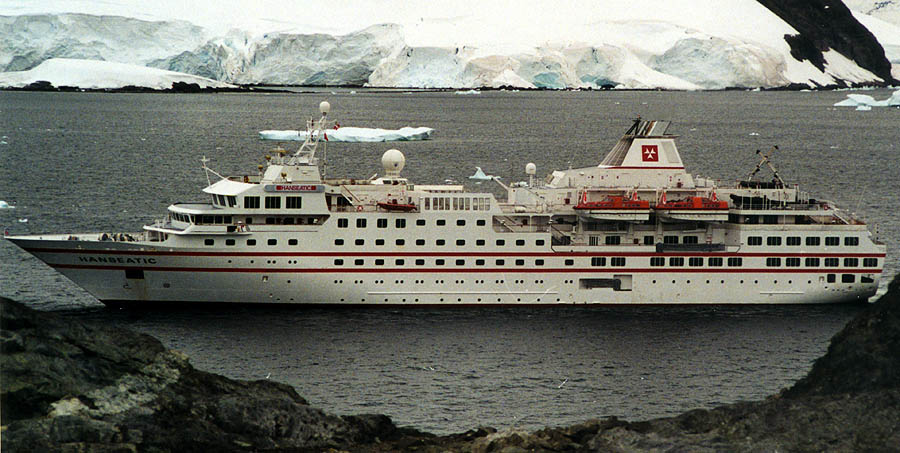 Photo of Hanseatic in Paradise Bay, Antarctica